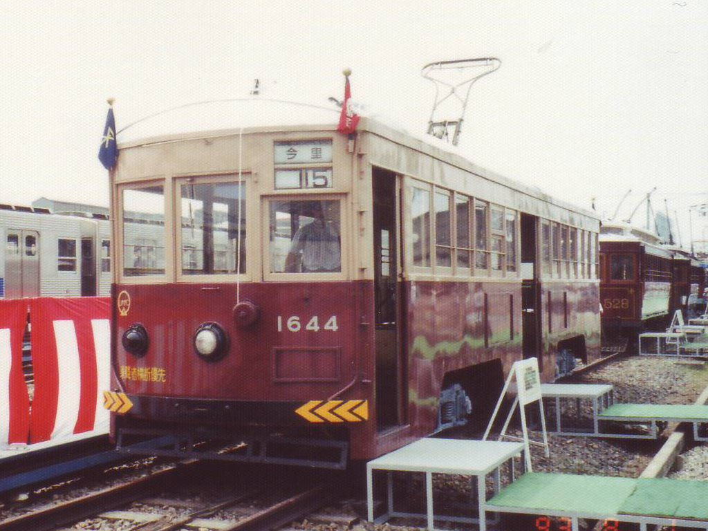 Osaka City Tram #1644. taken in 1993.